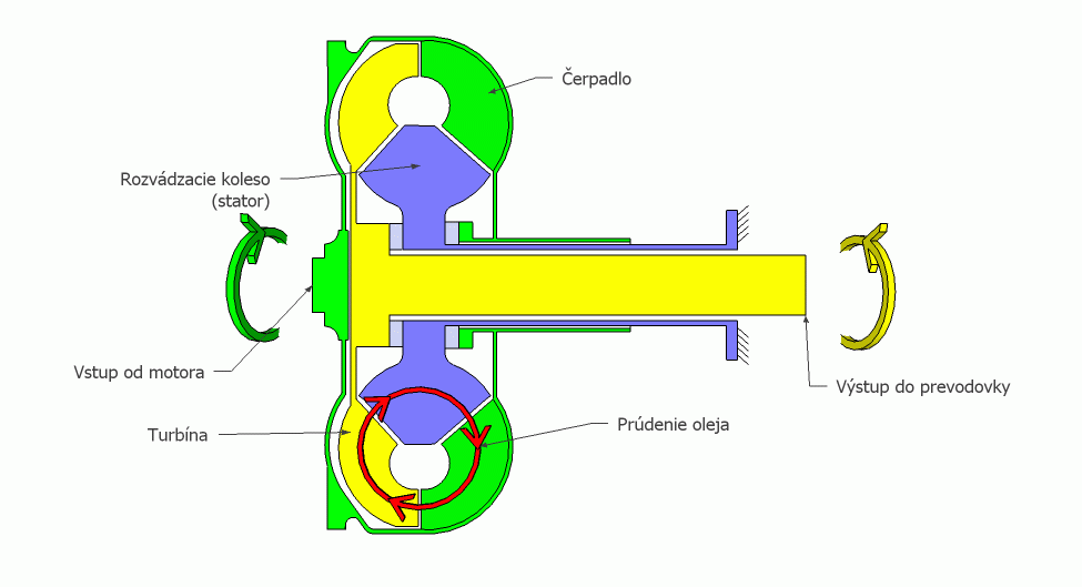 simple torque converter without lock-up clutch.